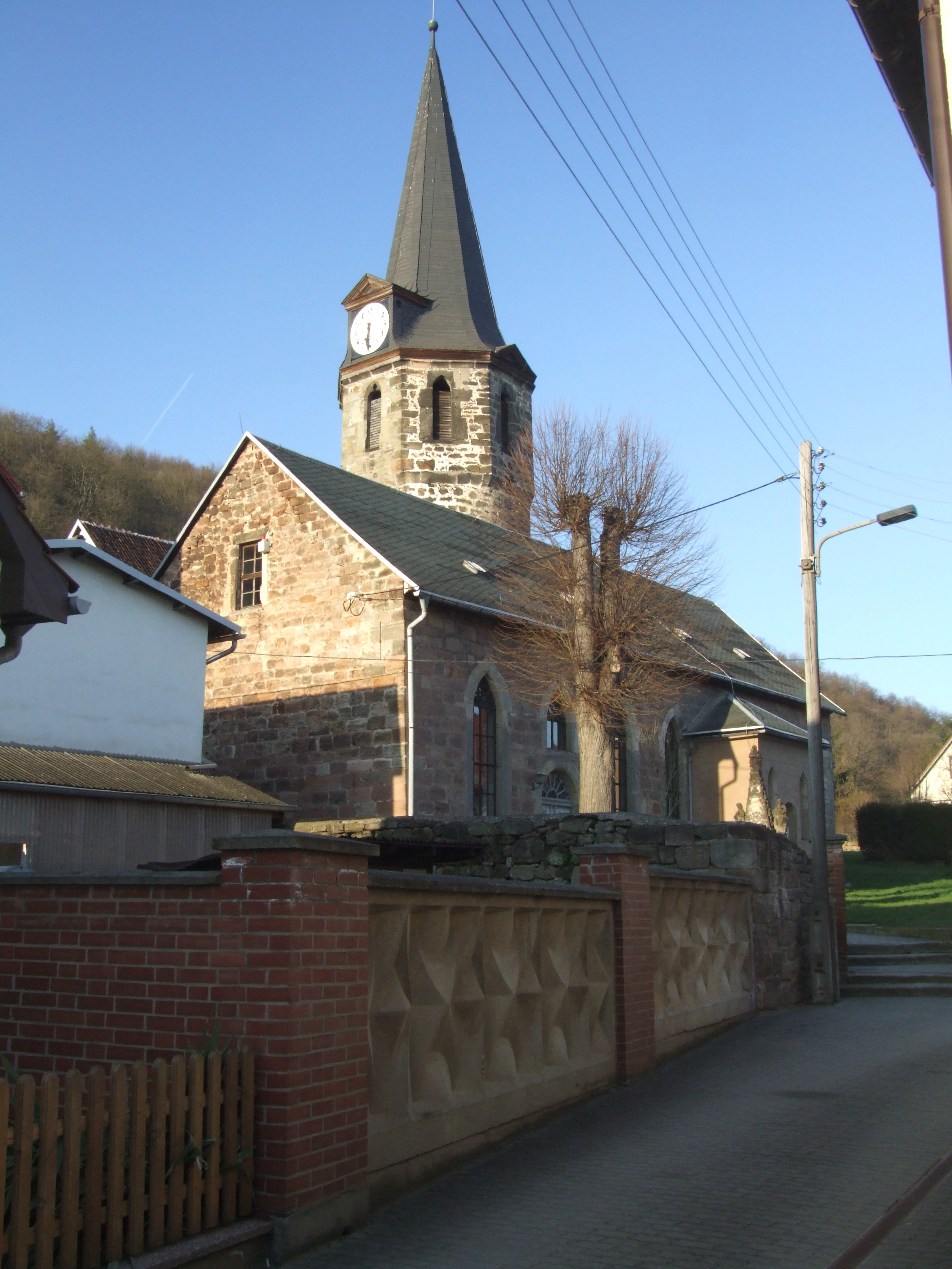 Church Kirchhasel